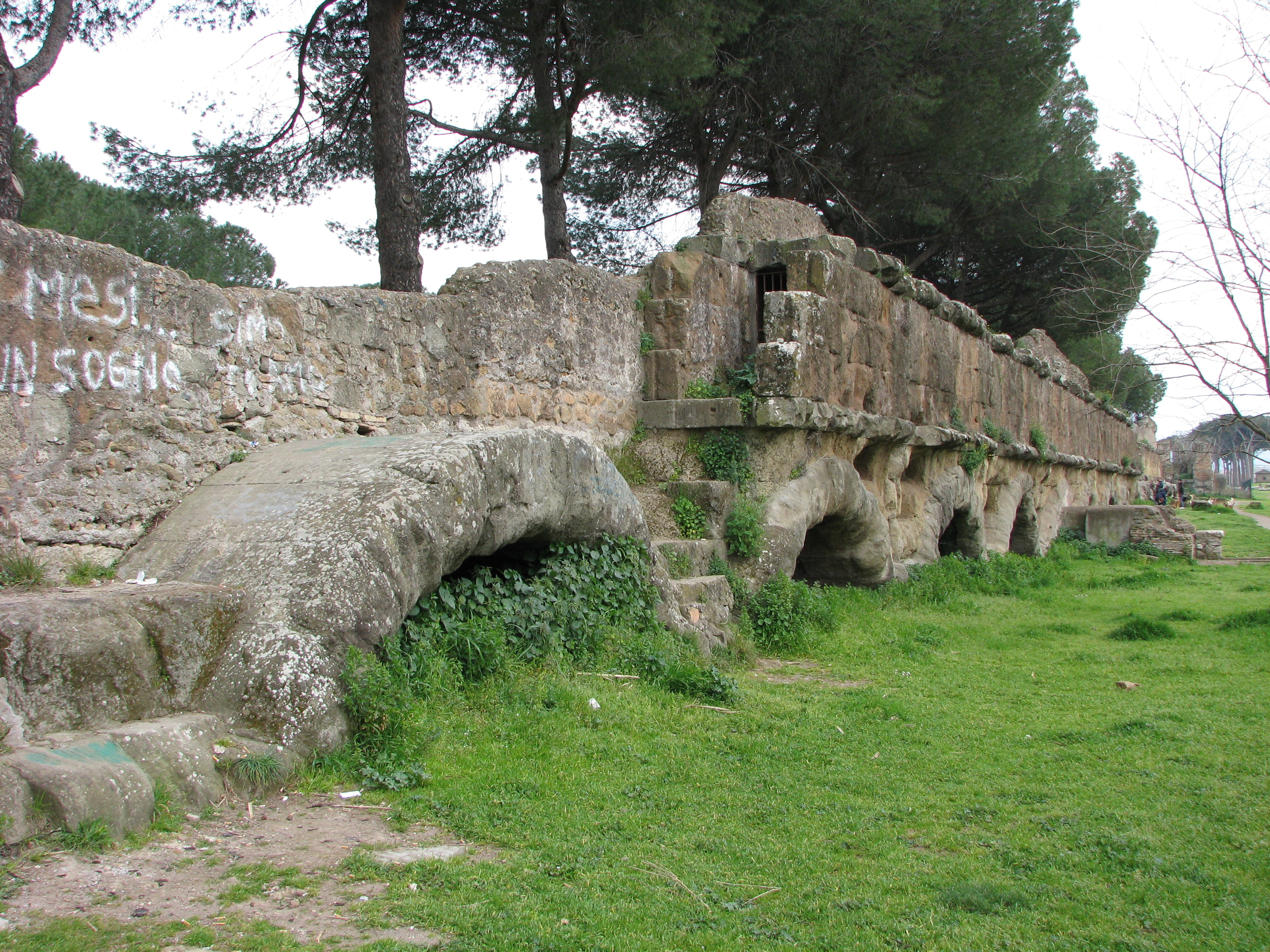 Remains of the stone arches and the channel of the Aqua Marcia (140 BC), with the brick Aqua Julia (125 BC) and minor brick remains of the Aqua Tepula (33 BC) on top. Location near Romavecchia, Via Lemonia, Rome, Italy